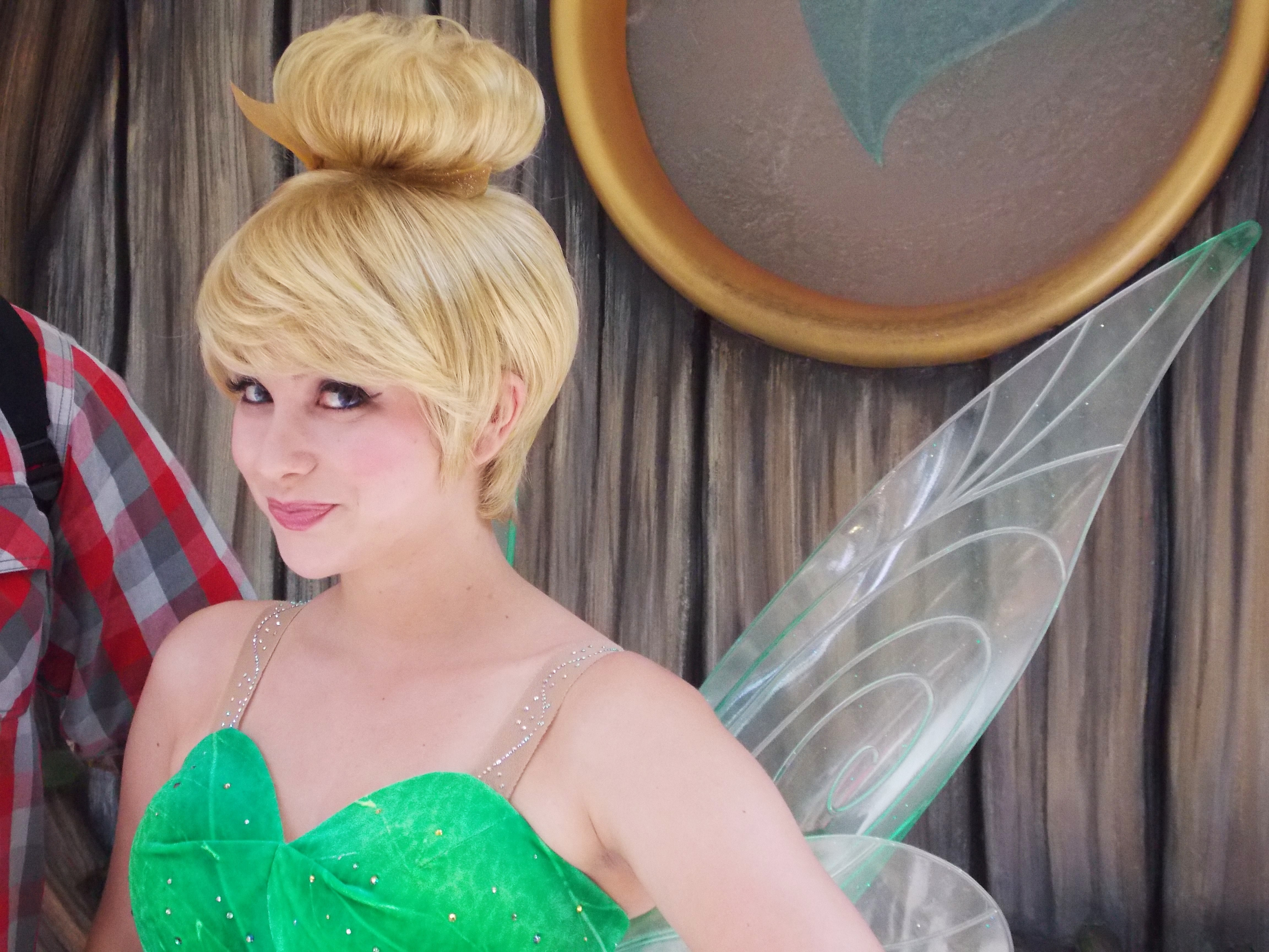 Tinker Bell at Pixie Hollow, Disneyland.